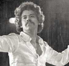 Compositor Jhonny Pacheco